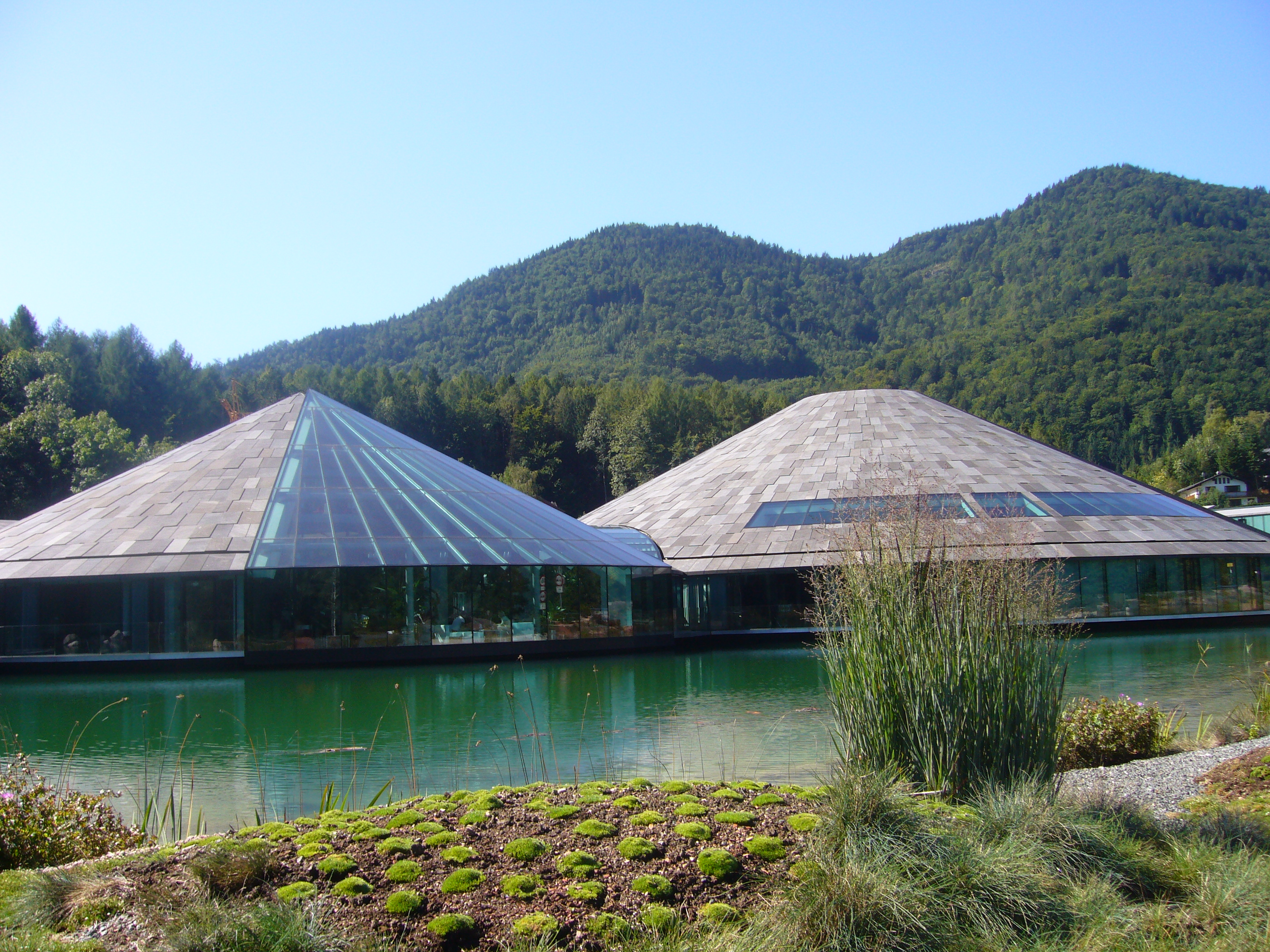 Red Bull headquarters in Fuschl am See, Austria